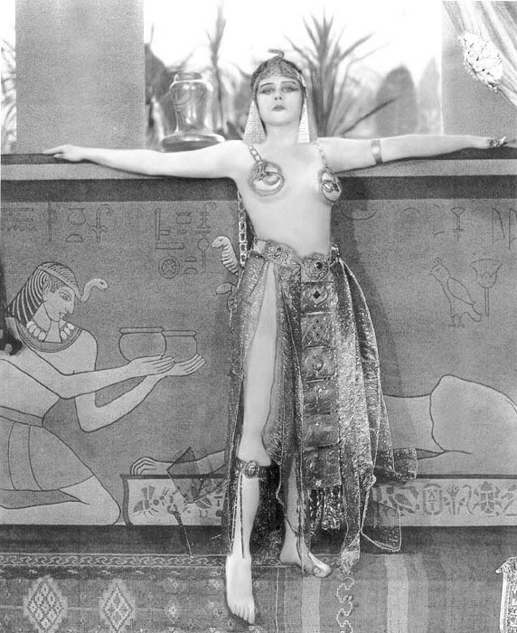 Actress Theda Bara in one of her famous risque costumes in a promotional still from the 1917 film Cleopatra, which has since been lost.